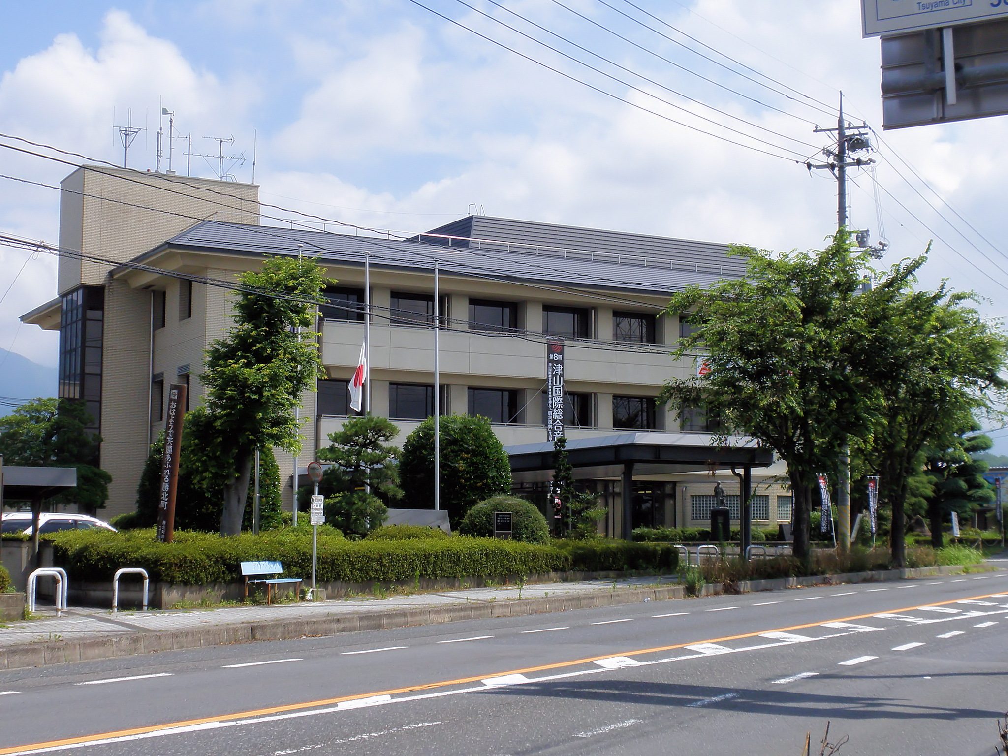 Tsuyama city office Shōboku branch (Warehouse of Public Library of Tsuyama City) Former Shōboku town office (1985.10 - 2005.2.27)